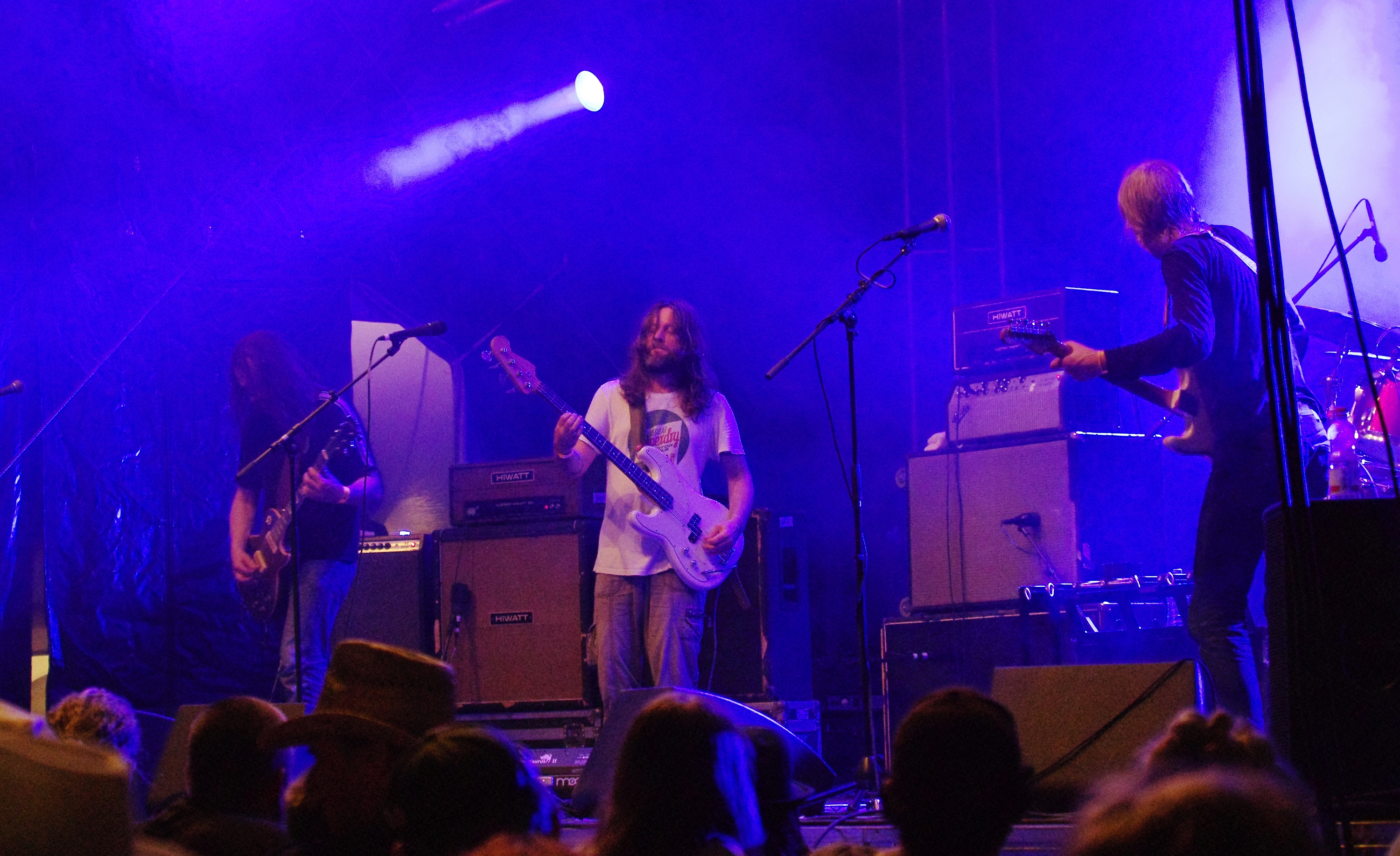 Motorpsycho at Krach am Bach festival in Beelen. Lineup: Bent Sæther (bass/guitar/vocals), Hans Magnus "Snah" Ryan (guitar/vocals), Kenneth Kapstad (drums), Reine Fiske (guitar).